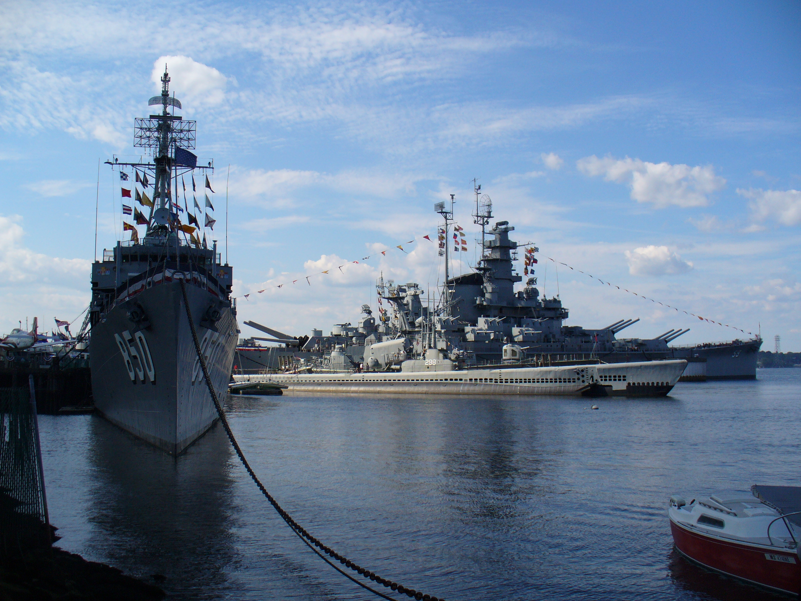 A photo taken of Battleship Cove in 2007.